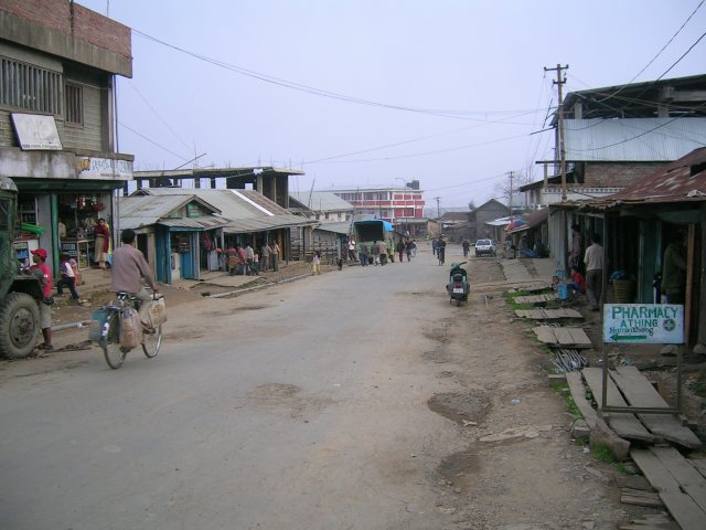 Photographed by Tabish. May 2007.